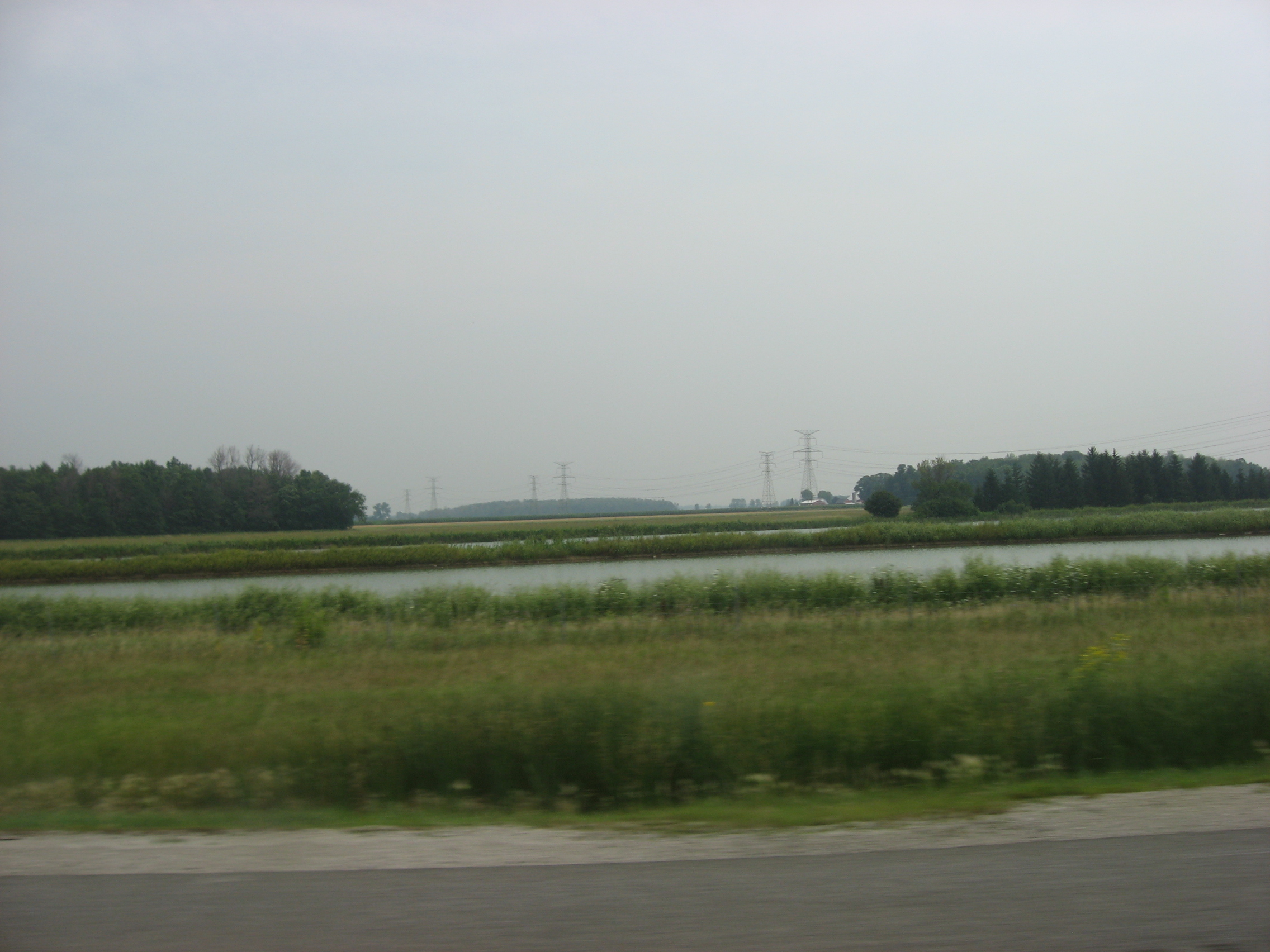 en}Countryside in southeastern Lake Township, Wood County, Ohio, United States. Picture taken looking northward from the concurrent Interstates 80/90 (the Ohio Turnpike).